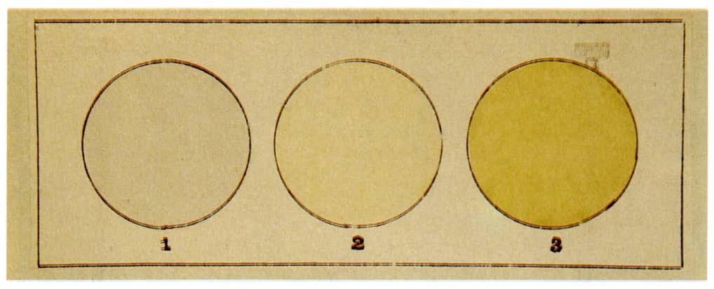 Henri Moissan's observation of fluorine's color and comparison to air or chlorine, published in 1892